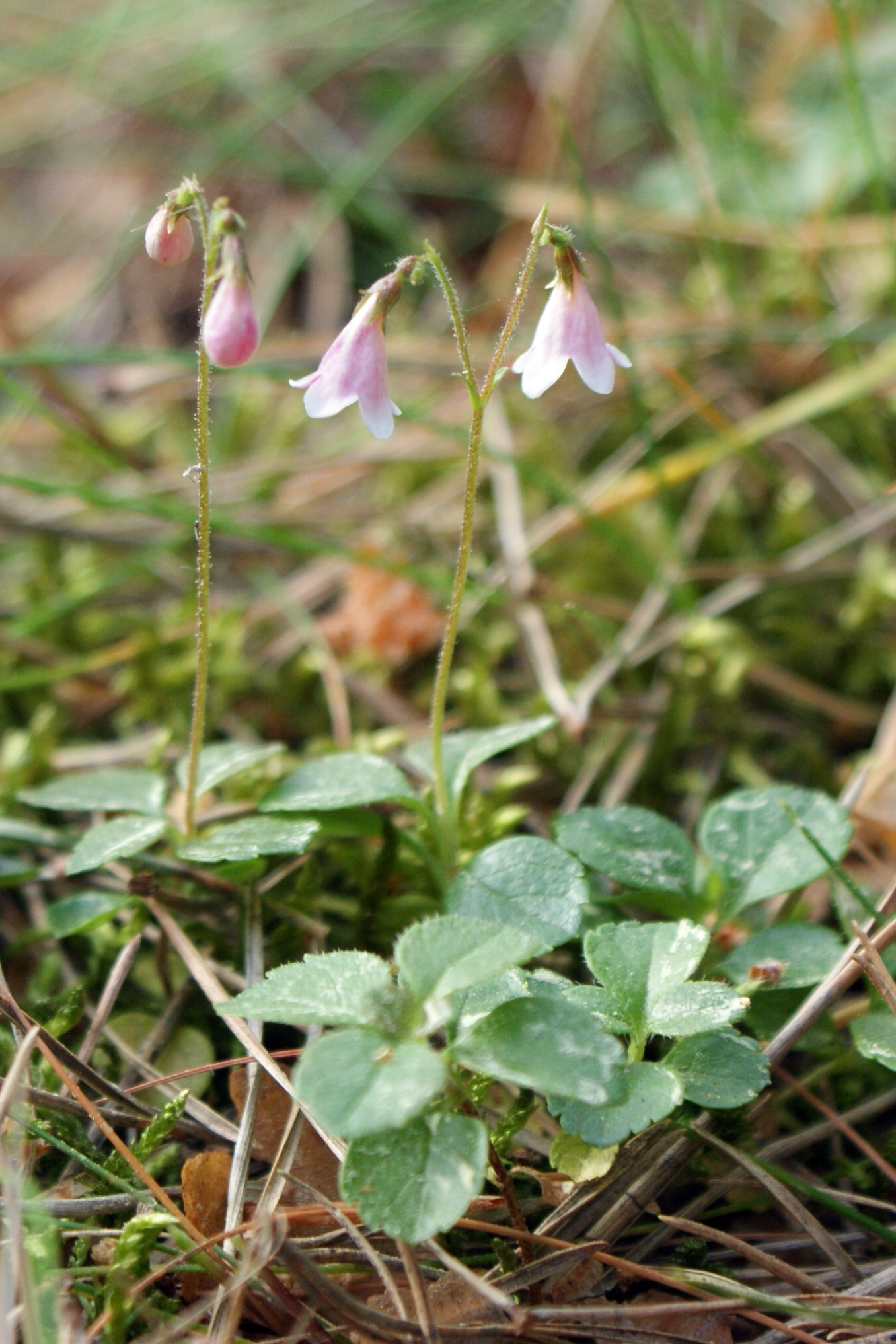 Linnaea borealis, Wolinski National Park (NW Poland)